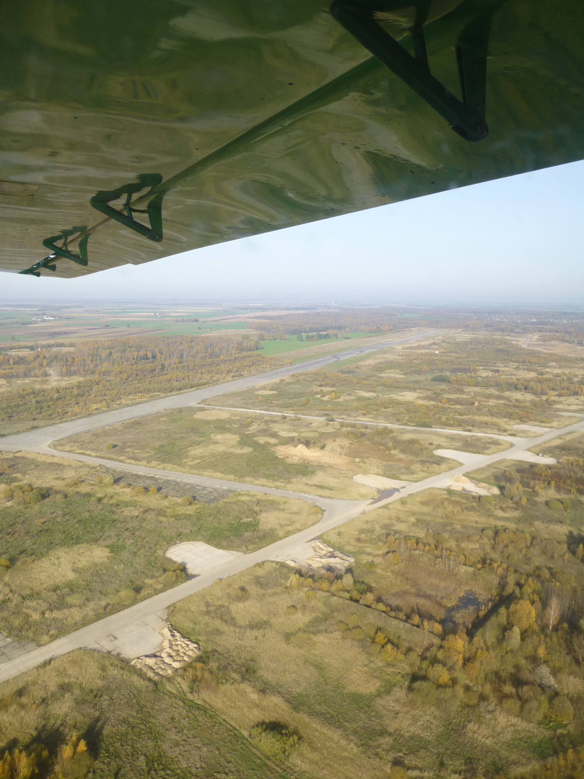 Flying over the Kedainai airport in a locally based aircraft. The old soviet revetments are visible.